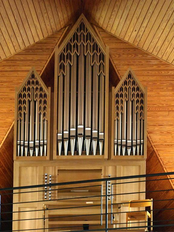 Hörnum (Sylt), Slesvic-Holstein (Germany): church, organ, photo 2008